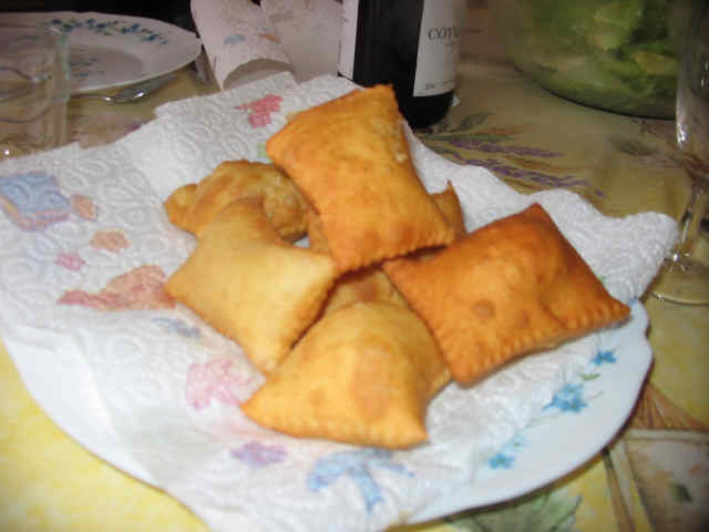 Photo Tourtons